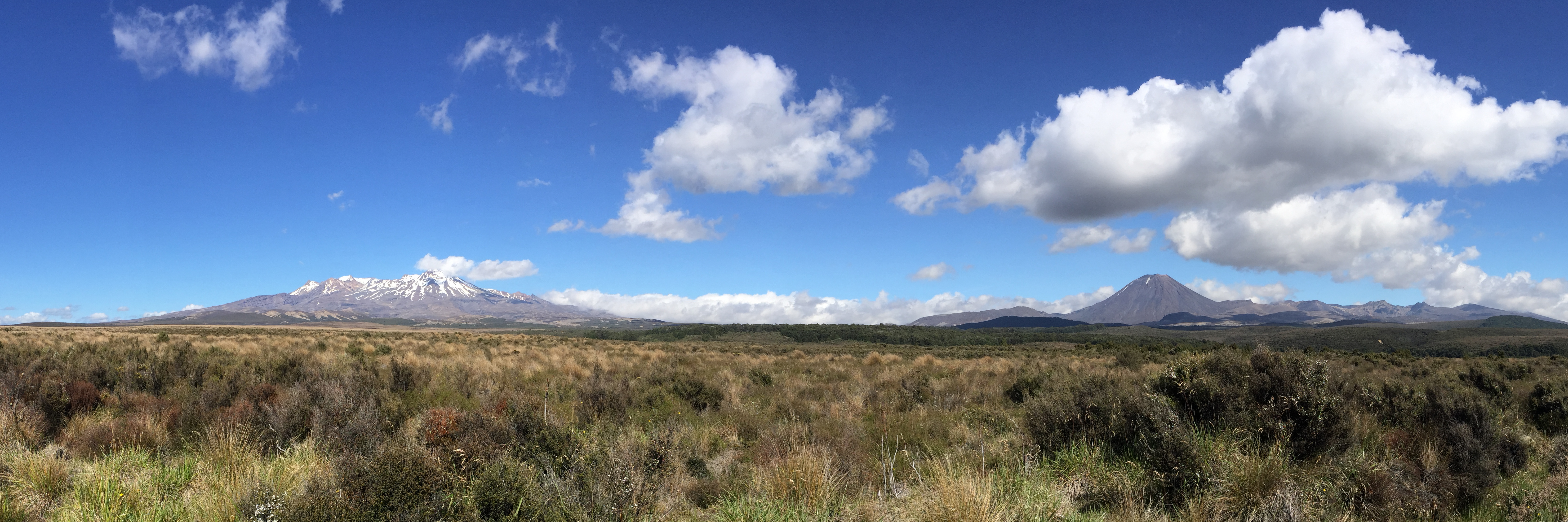 Panoramic shot of Mt Ruapehu and Mt Ngauruhoe taken from the Desert Road in January 2015.